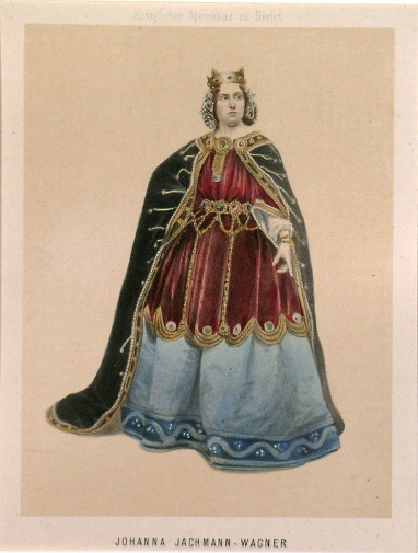 Johanna Jachmann-Wagner (1826-1894), opera singer, as Ortrud in "Lohengrin" by Richard Wagner